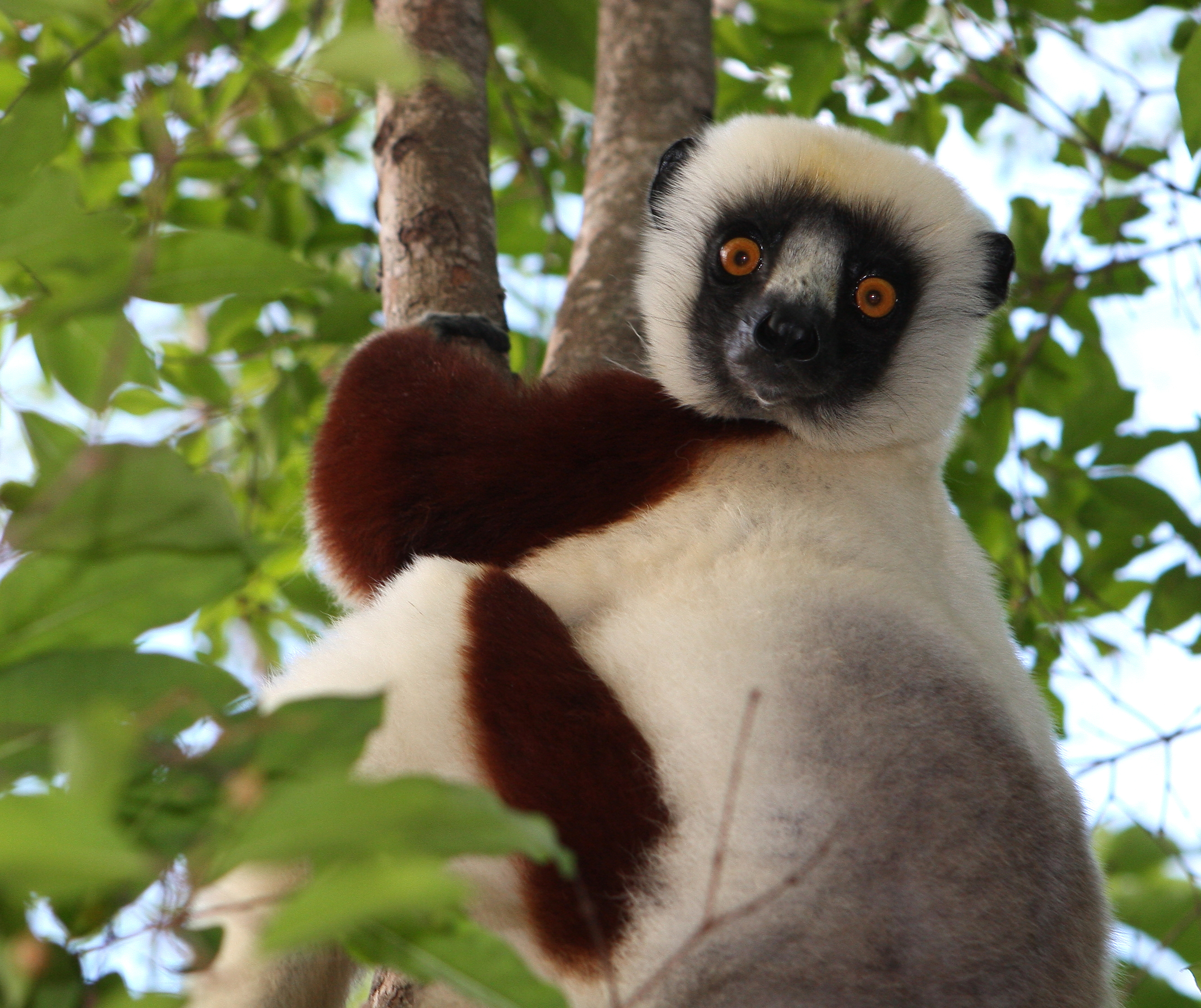 Coquerel's Sifaka (Propithecus coquereli) in northern Madagascar